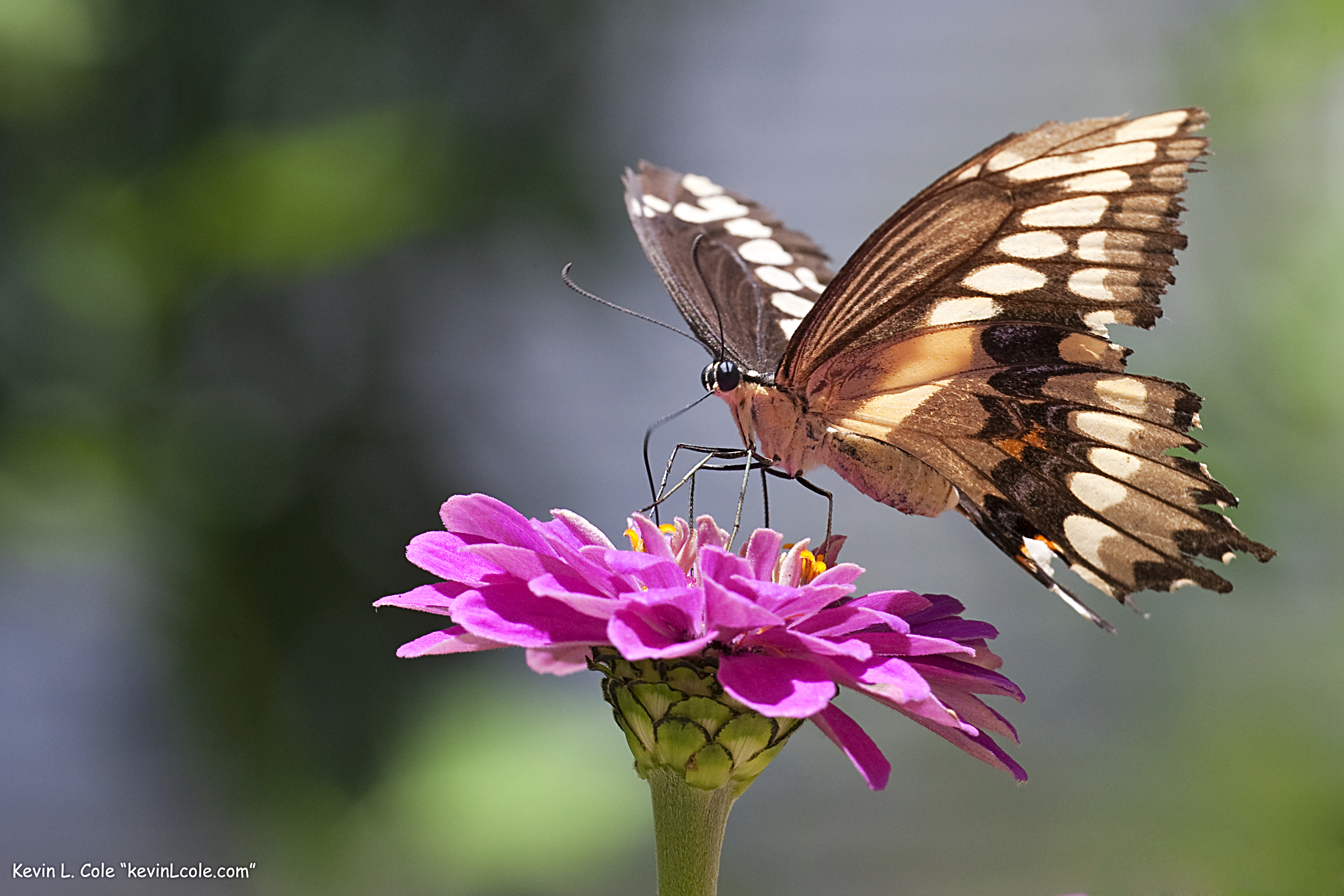 Papilio sp., taken at the Butterfly Alive exhibit at the Santa Barbara Museum of Natural History. NB: originally misdentified as Battus polydamas.